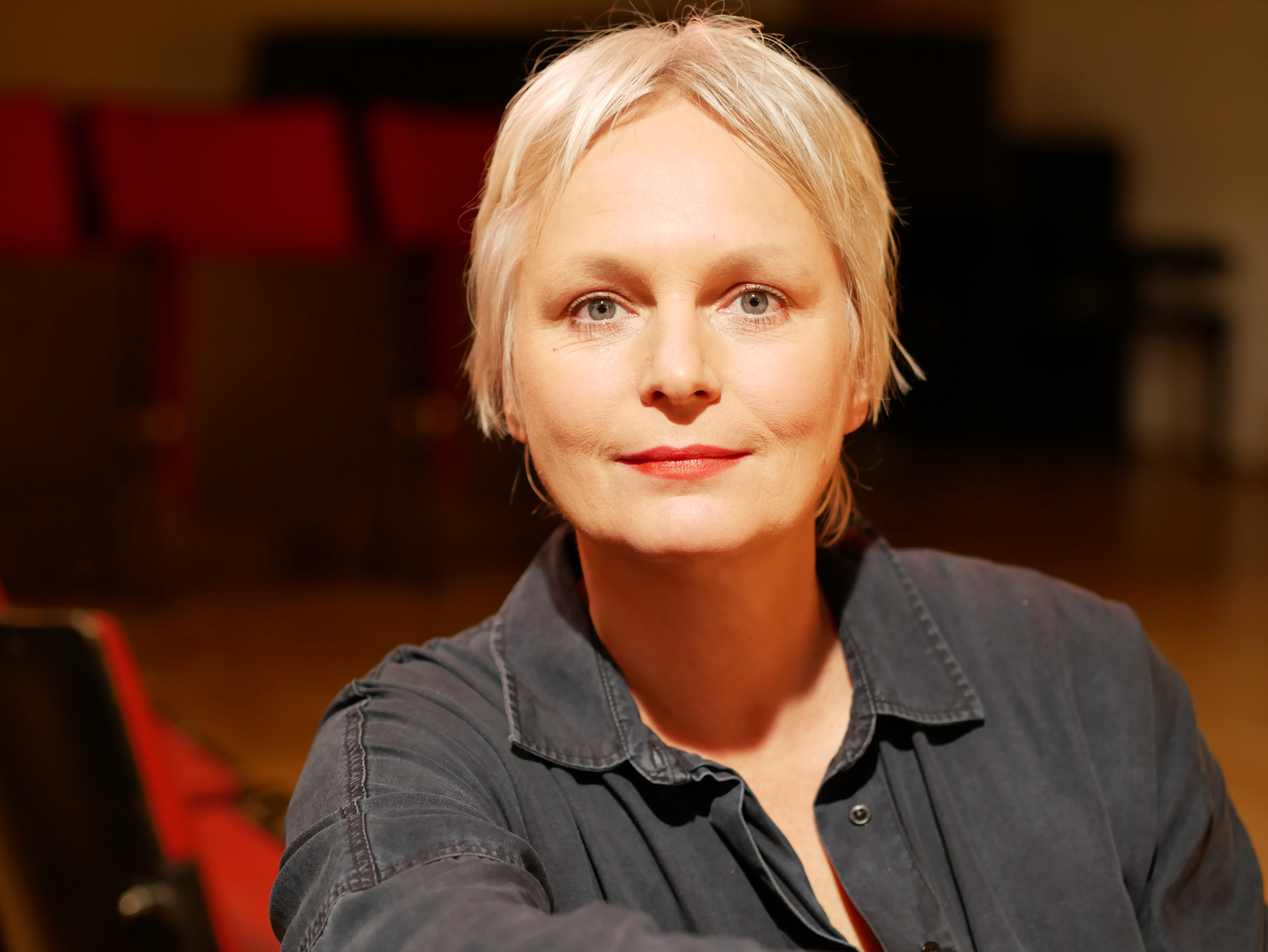 Portrait of the german comedian Ellen Schaller by Gerald Gluth-Goldmann (2018)